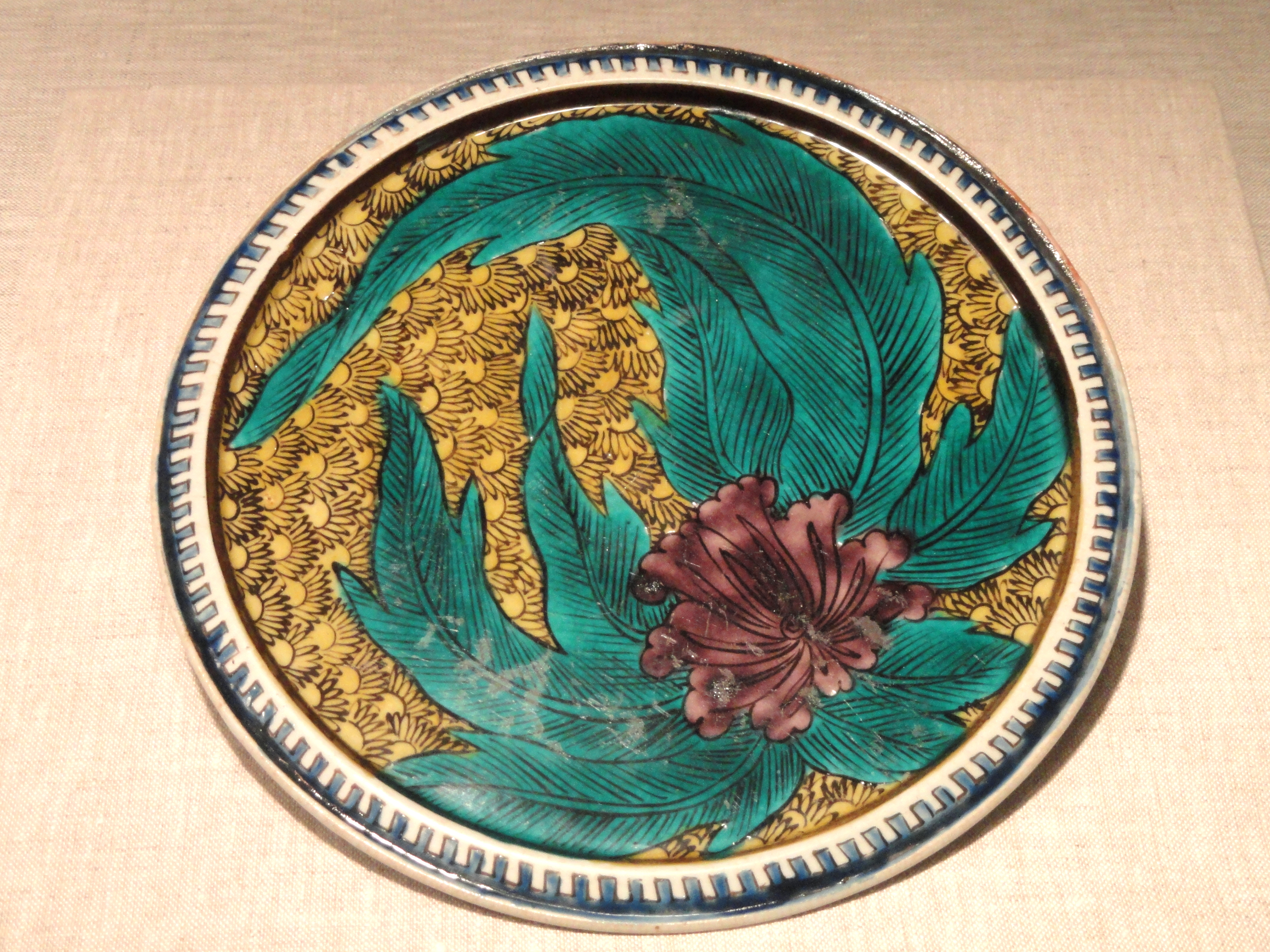 Exhibit in the Art Institute of Chicago, Chicago, Illinois, USA. This artwork is in the public domain because the artist died more than 70 years ago.